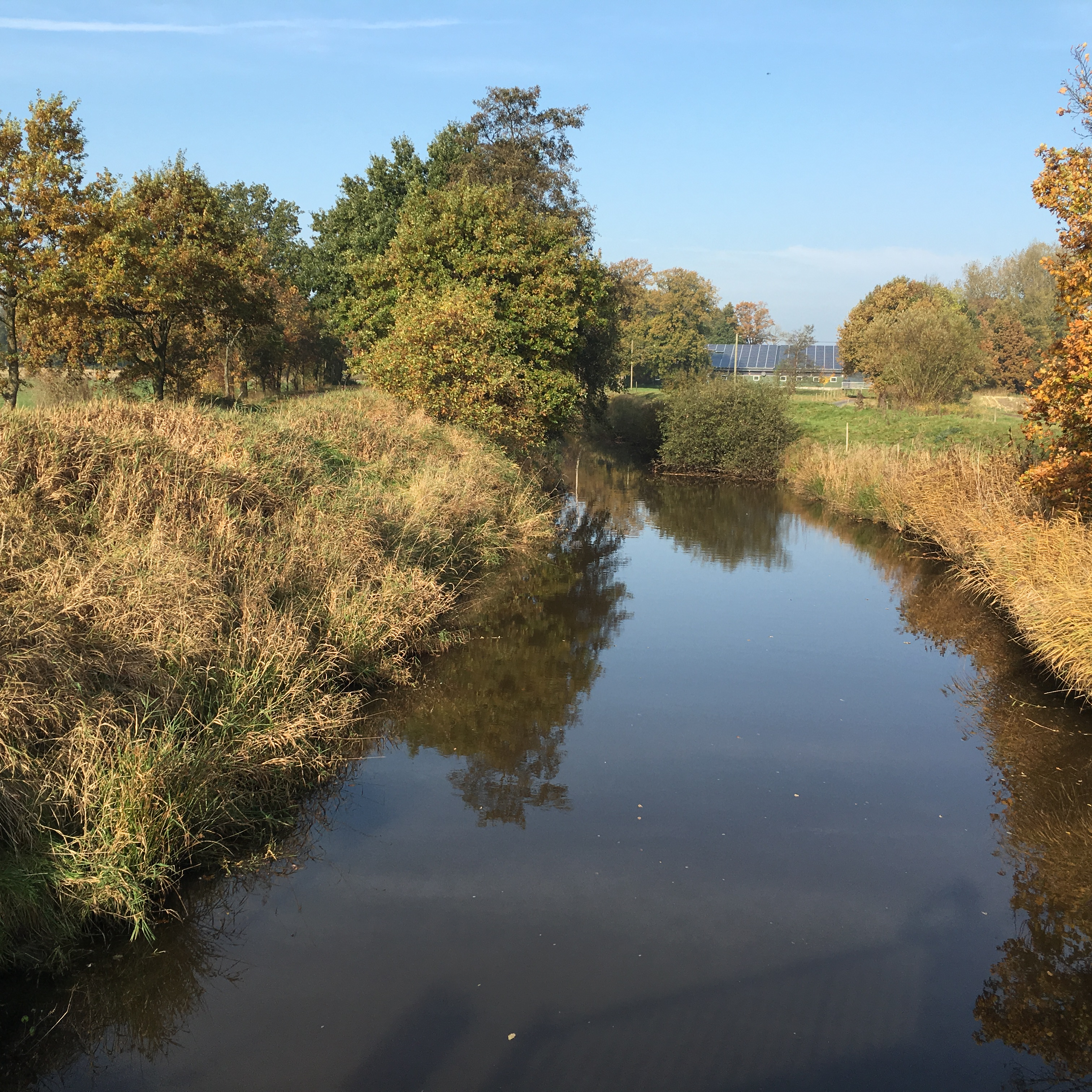 The Horsterbeck river, here forming the border between Horst upon Oste, a locality of Burweg (west [here left] bank), and Breitenwisch, a locality of Himmelpforten (east [here right] bank)